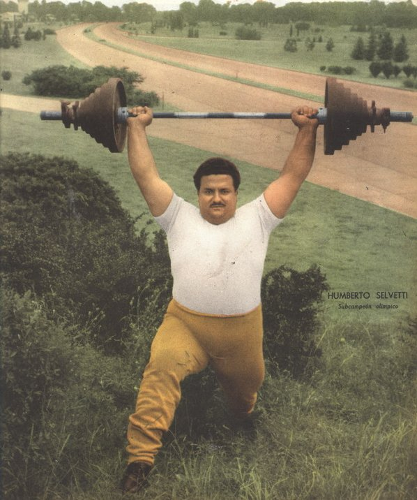 Argentina. Humberto Selvetti. Weightlifting athlet. Two Olympyc medals (1952 & 1956).